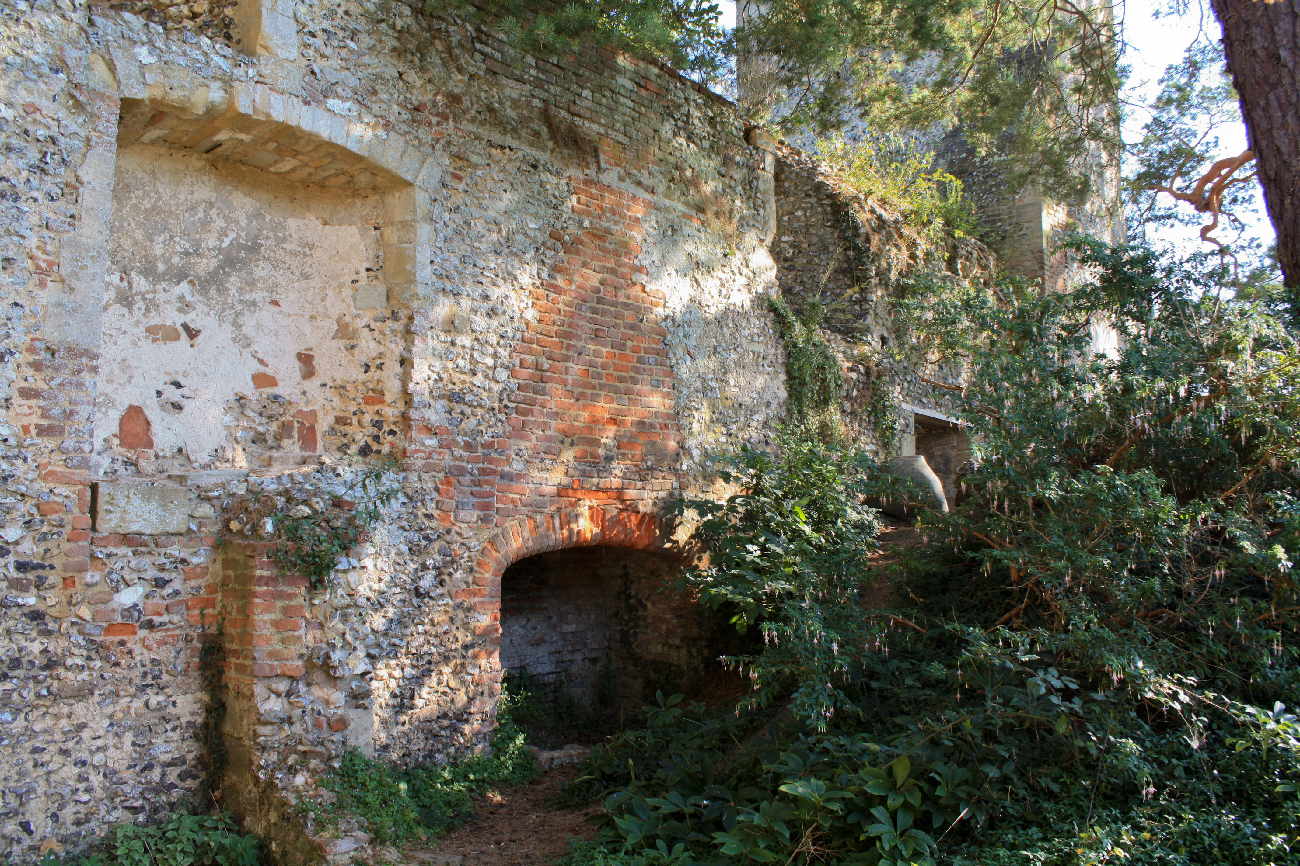 Greys Court, Rotherfield Greys, Oxfordshire: ruined wall attached to the Great Tower